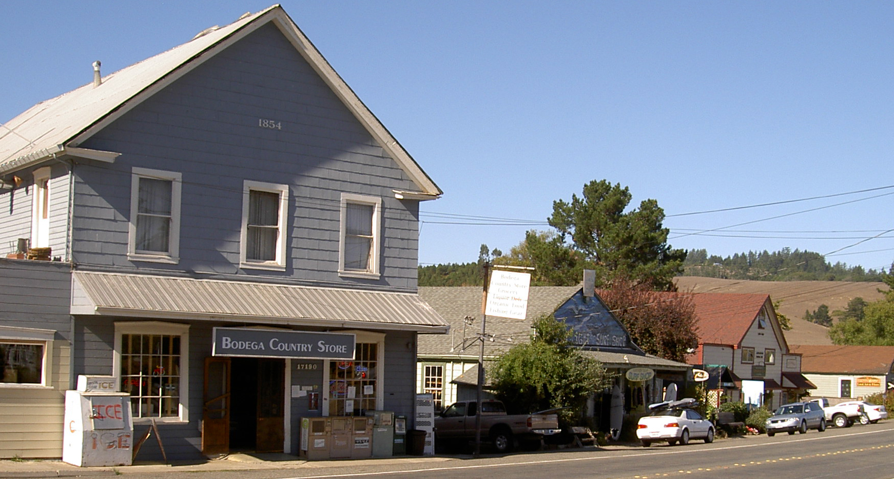 town of Bodega, CA showing surf shop and historic general store as seen from post office